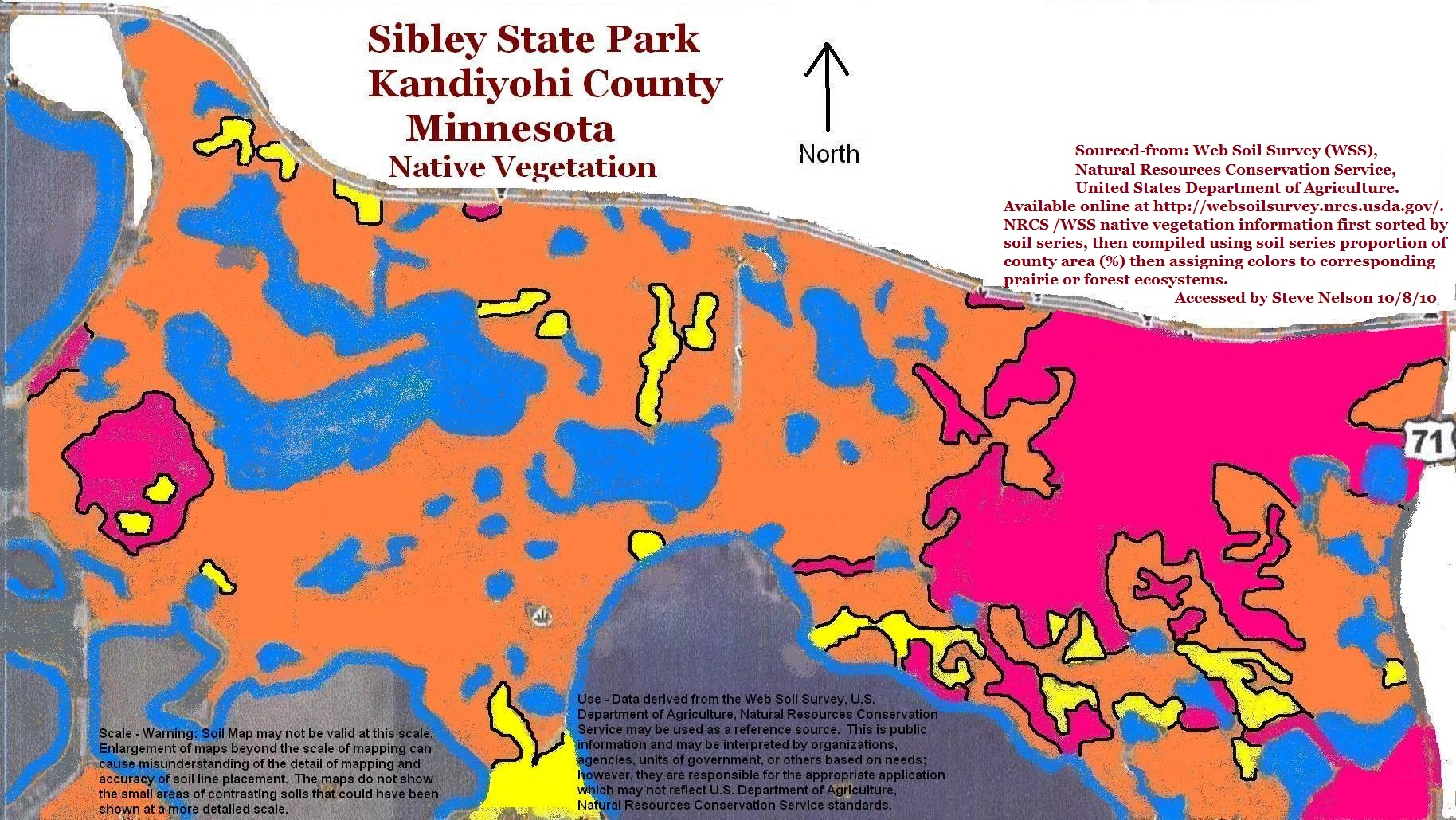 Map shows native vegetation of Sibley State Park area located in Kandiyohi County Minnesota. There are no forests here, only prairie, oak savanna and mixed hardwoods and prairie.